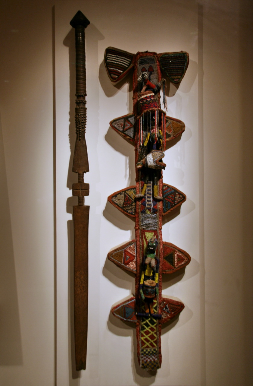 Orisha Oko is one of the principal deities among the Yoruba. Associated with the fertility of farms, he also has the power to aid in childbirth, restore people to health using herbal medicines and protect devotees against witchcraft. Blacksmiths of Irawo, forge his staff emblem from iron hoes provided by the client who wishes to found an Orisha Oko shrine. This reworking of the iron results in a finer metal. Although Orisha Oko was never a king, his staff is dressed as one. If the person can afford it, the staff may be stored and protected in a cotton sheath covered with European glass beads.